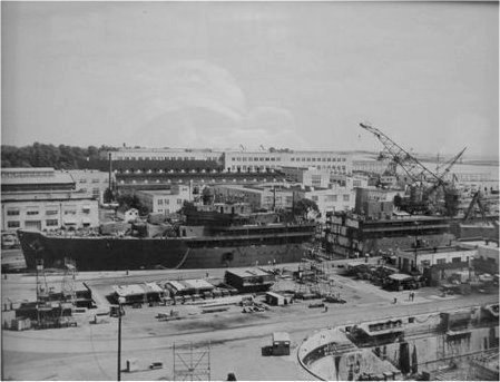 The U.S. Navy submarine tender USS Proteus (AS-19) in a drydock at Charleston, South Carolina (USA), cut in half to add a new mid-section. This section accommodated special shops and gear to service the new UGM-27 Polaris ballistic missiles.